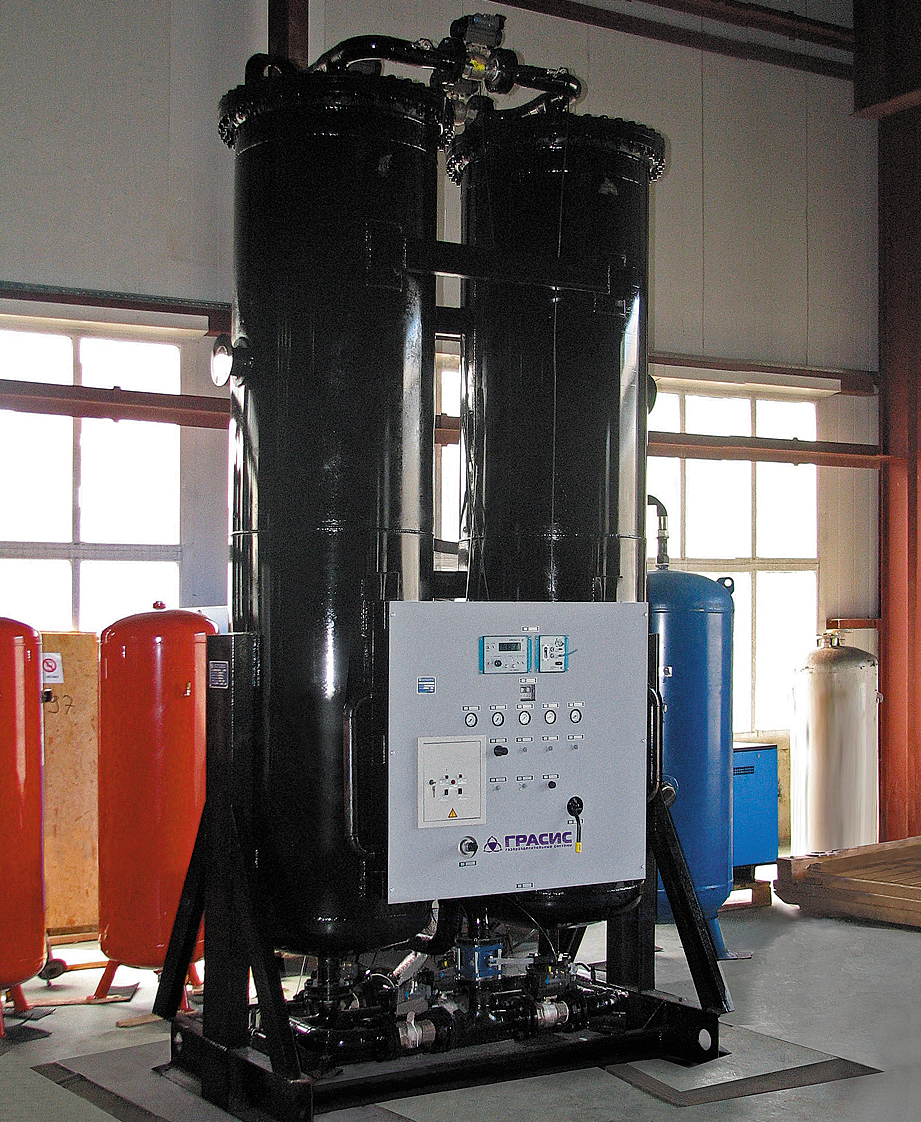 Company GRASYS adsorbtion nitrogen generator